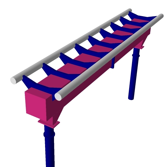 Created by myself, Seaserpent85